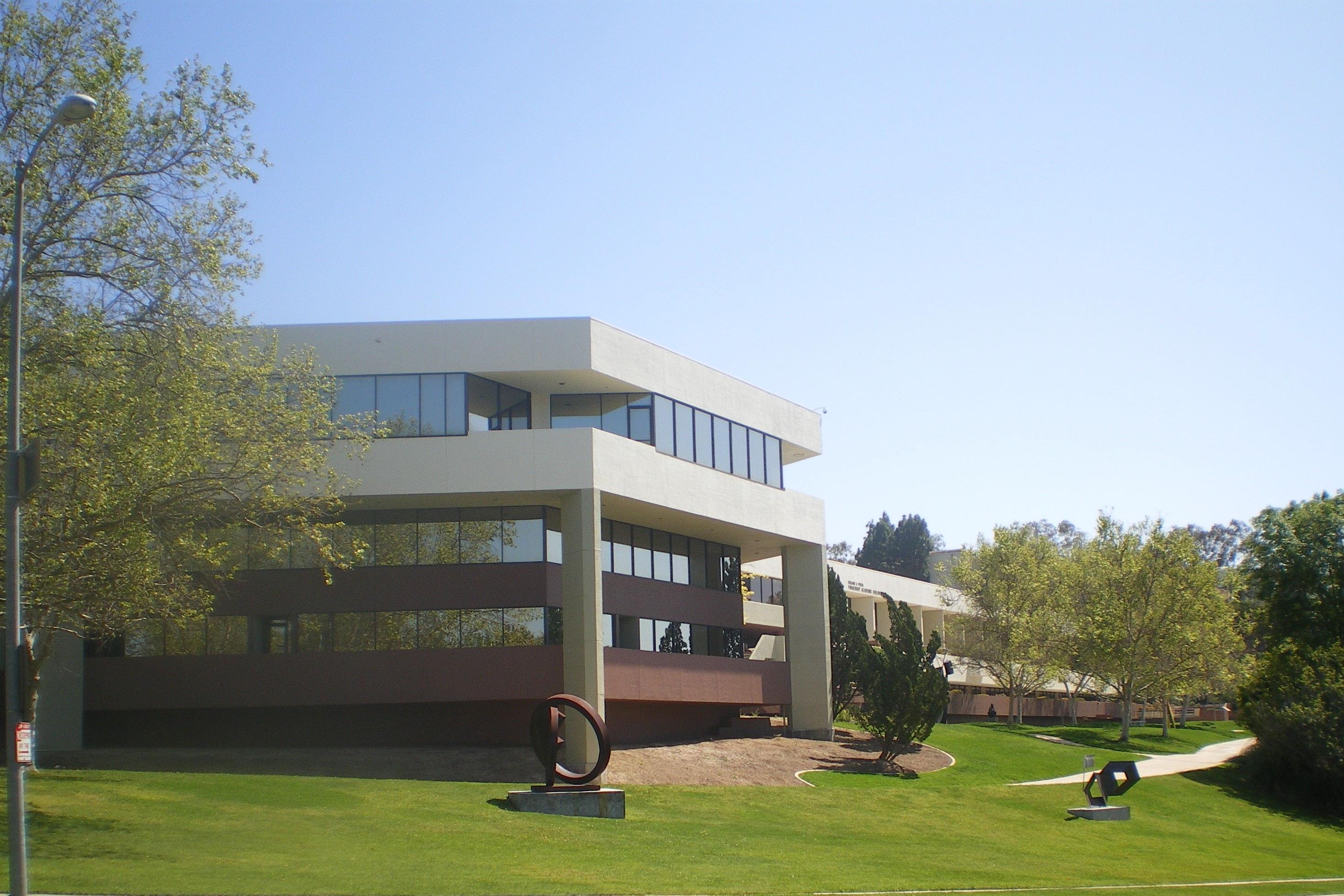 Mulholland Drive, American Jewish University, Bel Air, California